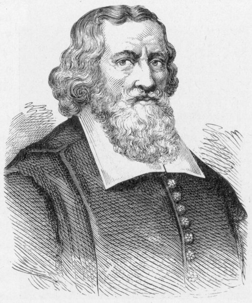 Johannes Terserus, bishop of Turku